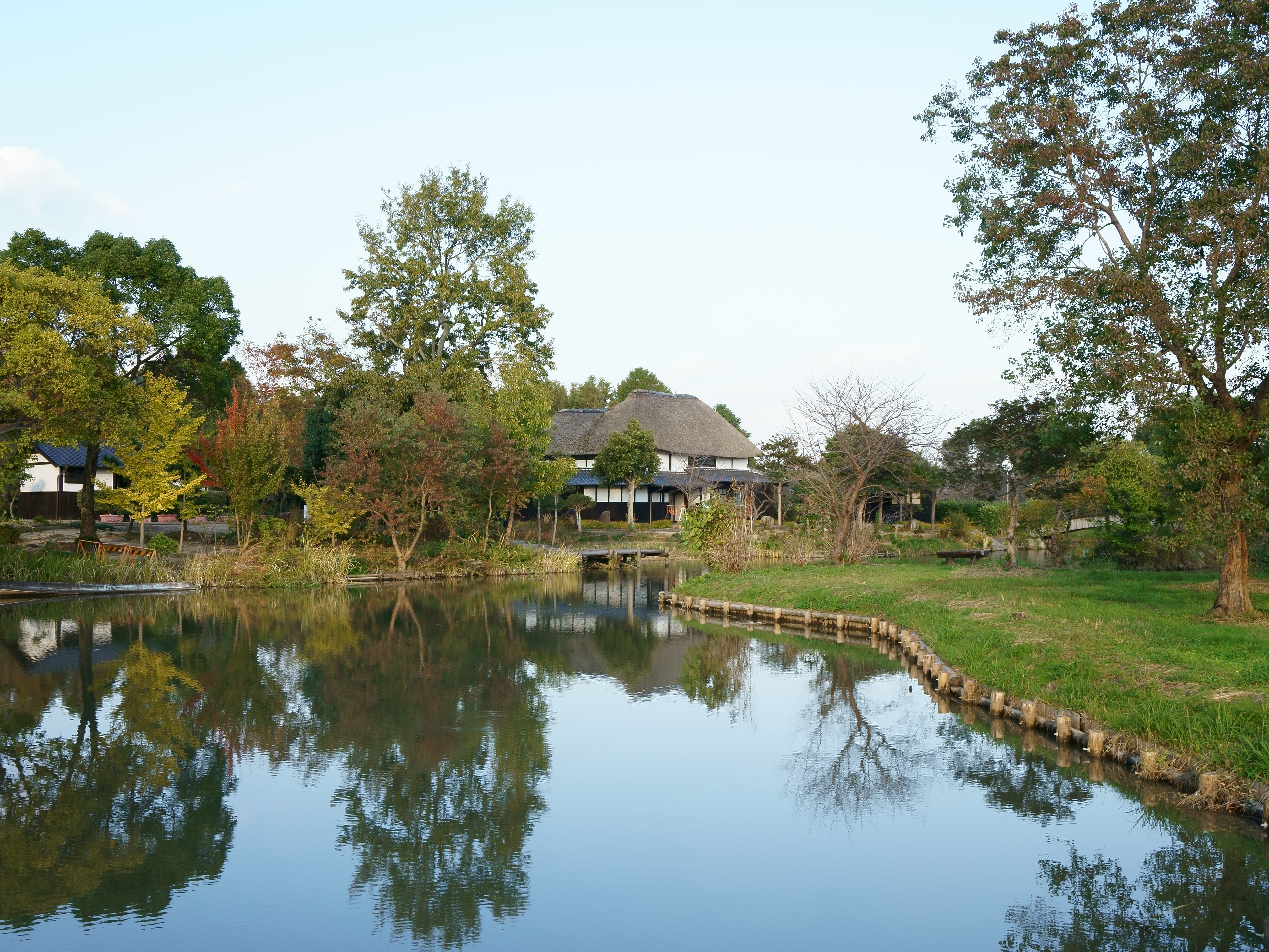 Yokotake Creek Park in autumn.